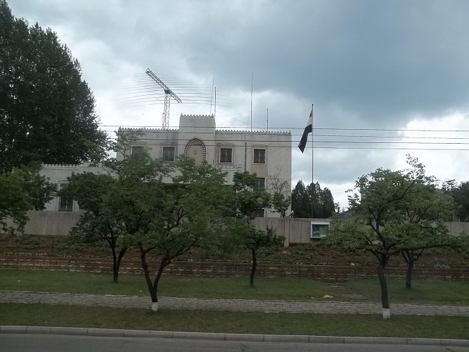 Embassy of the Islamic Republic of Iran to the Democratic Peoples Republic of Korea